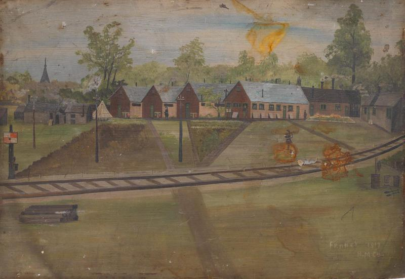 France 1917 image: A naive painting of a British Army Camp with a railway line running through the centre of the composition.